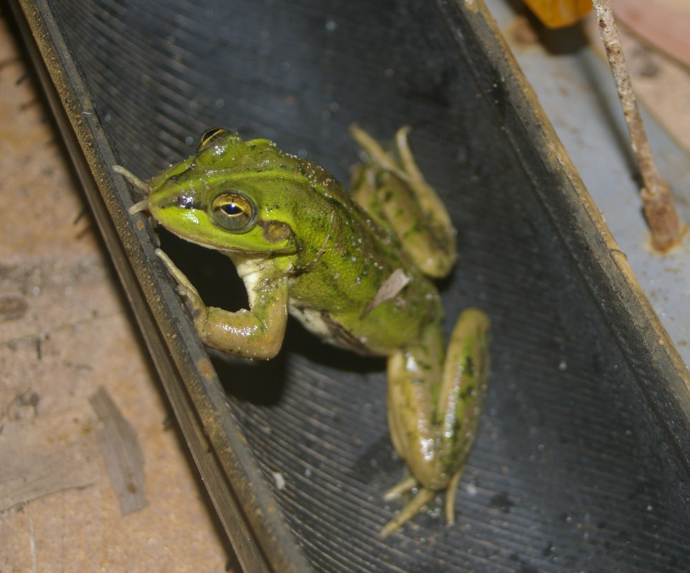 Dahl's Aquatic Frog (Litoria dahlii).